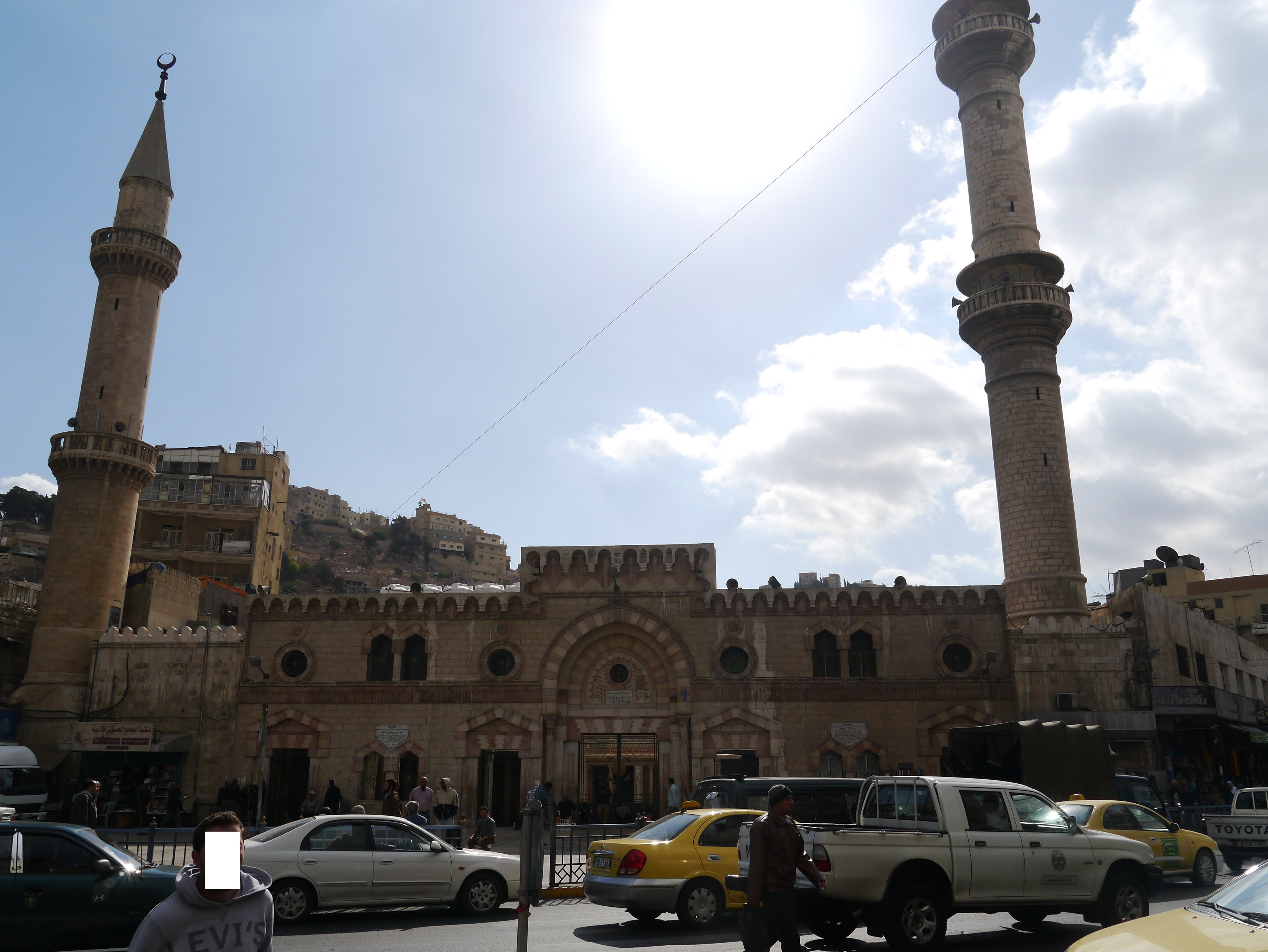 Husseini Mosque, Amman, Northwestern Jordan